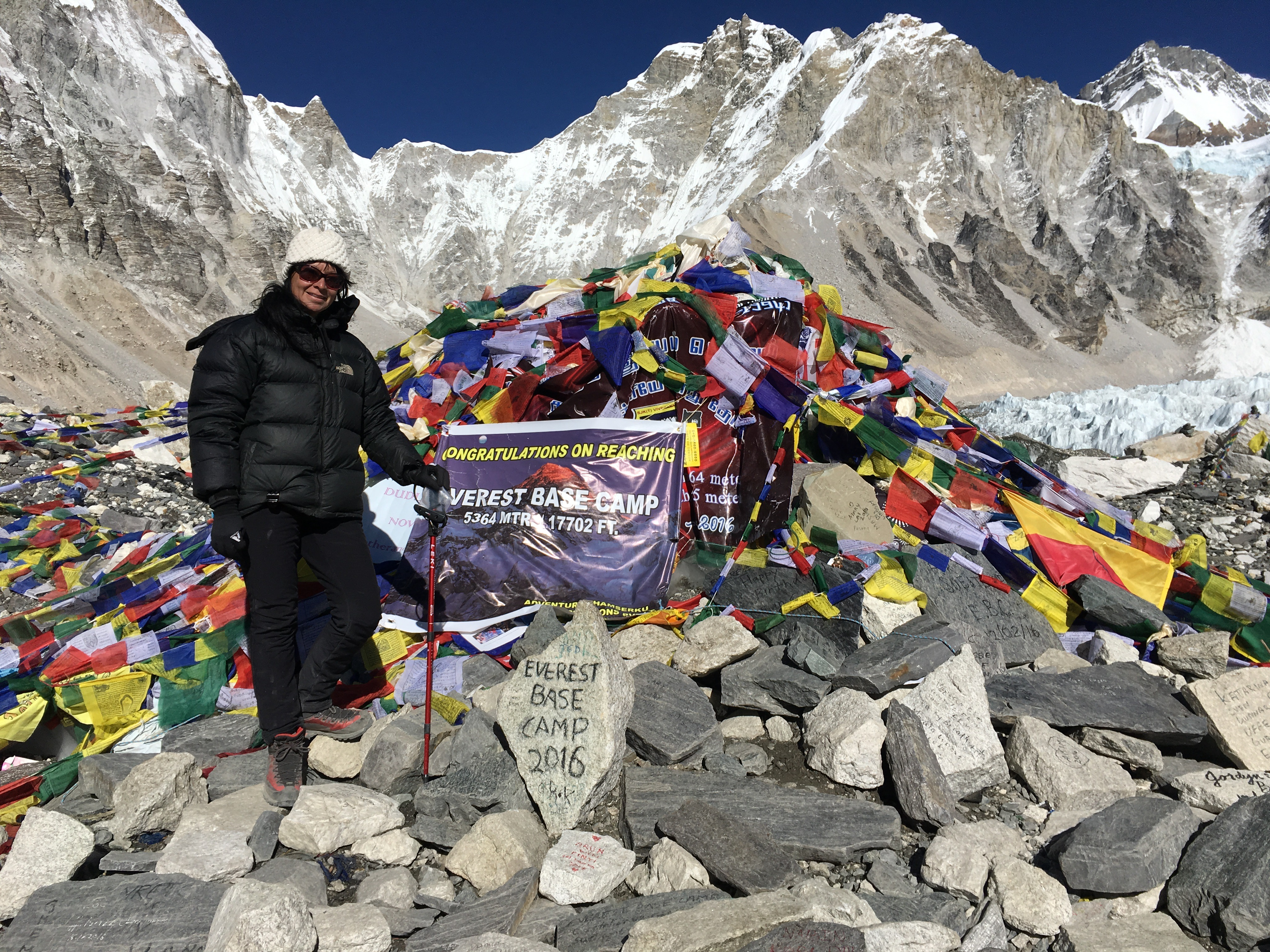 Mount Everest Base Camp